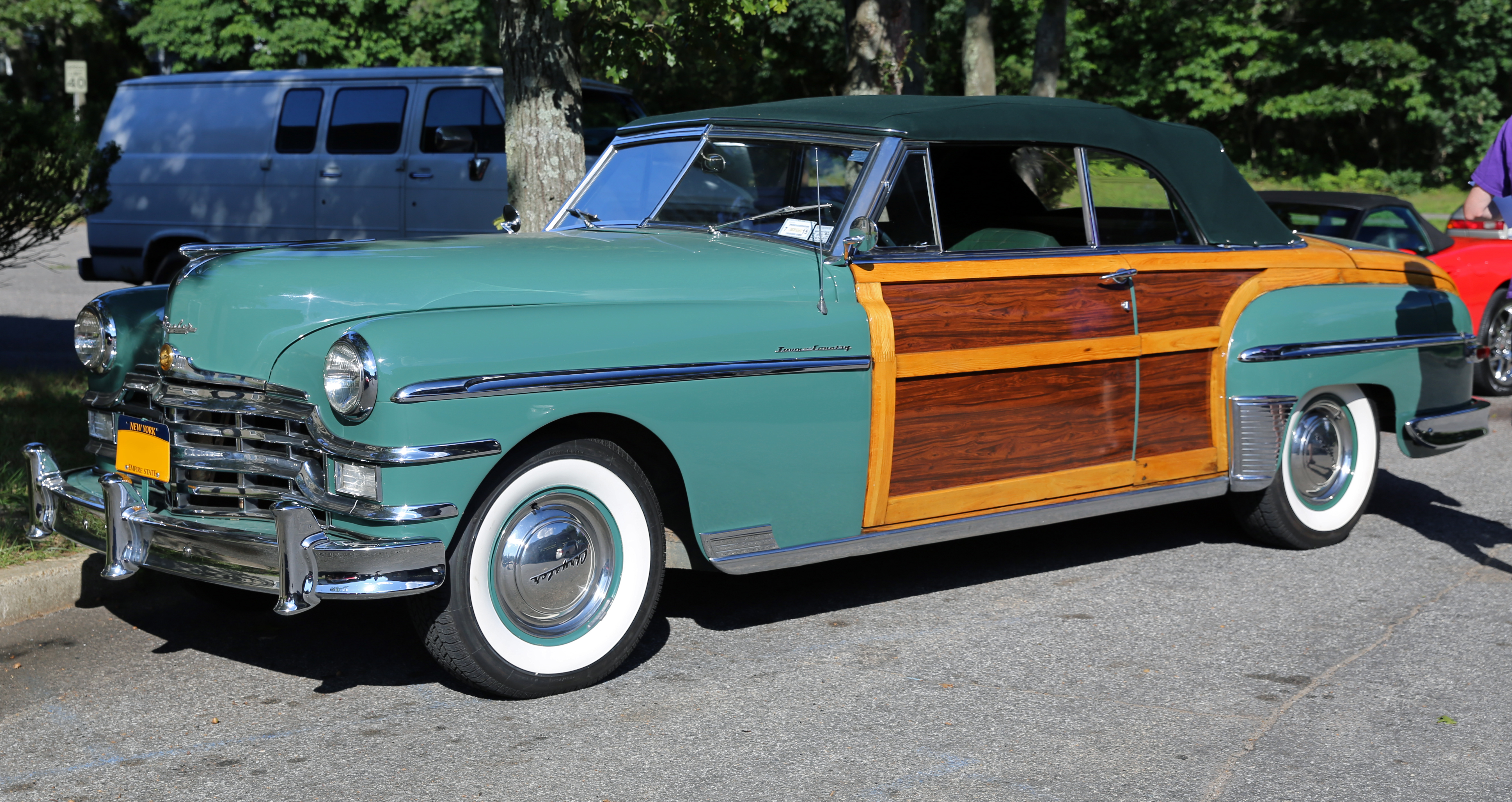 Front 3/4 view of a 1949 Chrysler New Yorker Town & Country Convertible Coupé (C46N), in East Hampton, NY. Only 993 were built of this, the most expensive 1949 Chrysler. The C46-series saw a shortened model year, its introduction having been delayed due to a strike in late 1948.